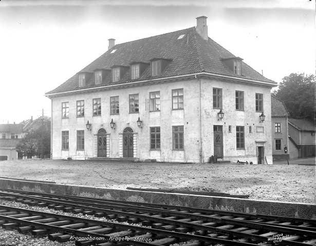 Kragerø railway station on Kragerøbanen, Norway.